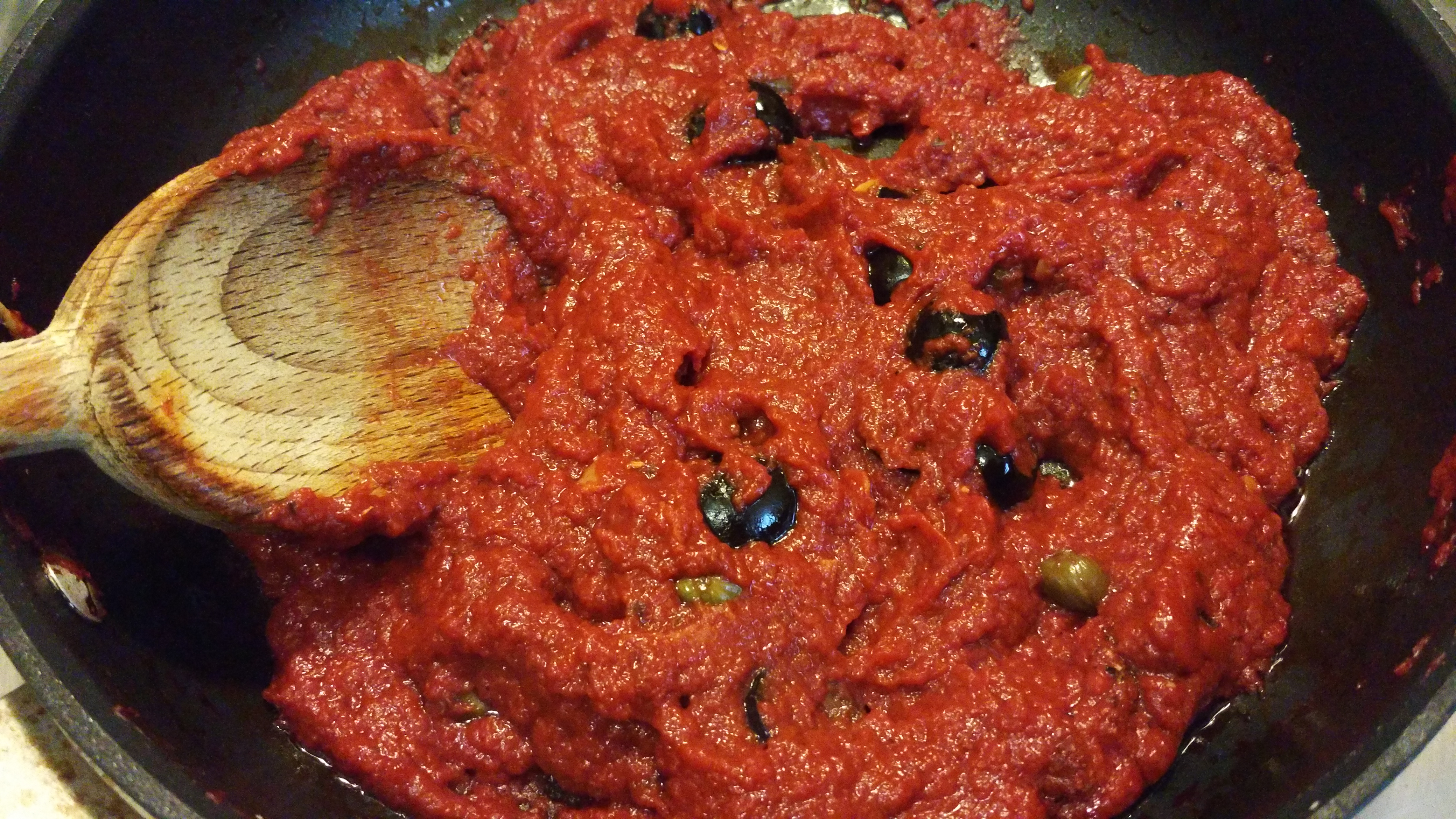 Puttanesca sauce